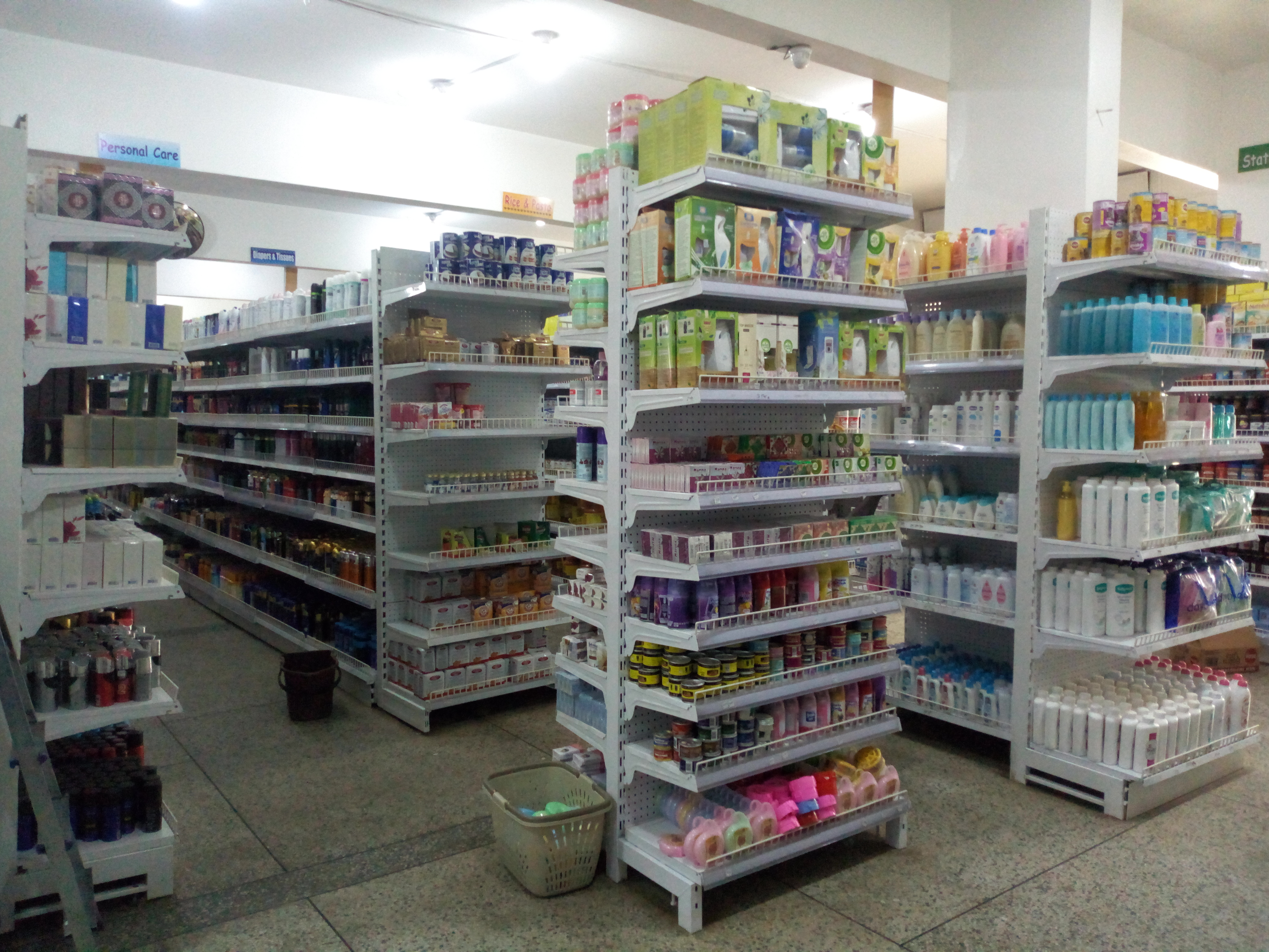 Supermarket in kaduna state